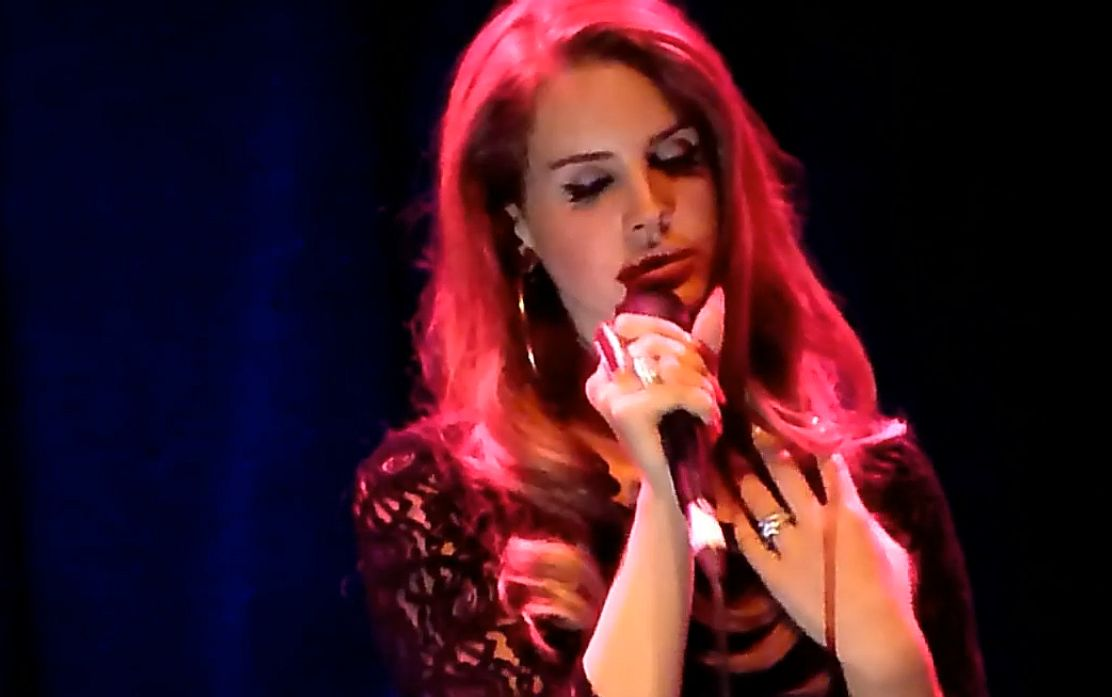 Lana Del Rey in Cologne, Germany; 2011-11-12